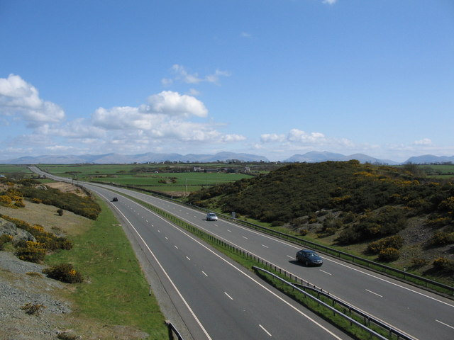 A55 Expressway - A view looking east along the A55 dual carriageway with the mountains of Snowdonia in the background.